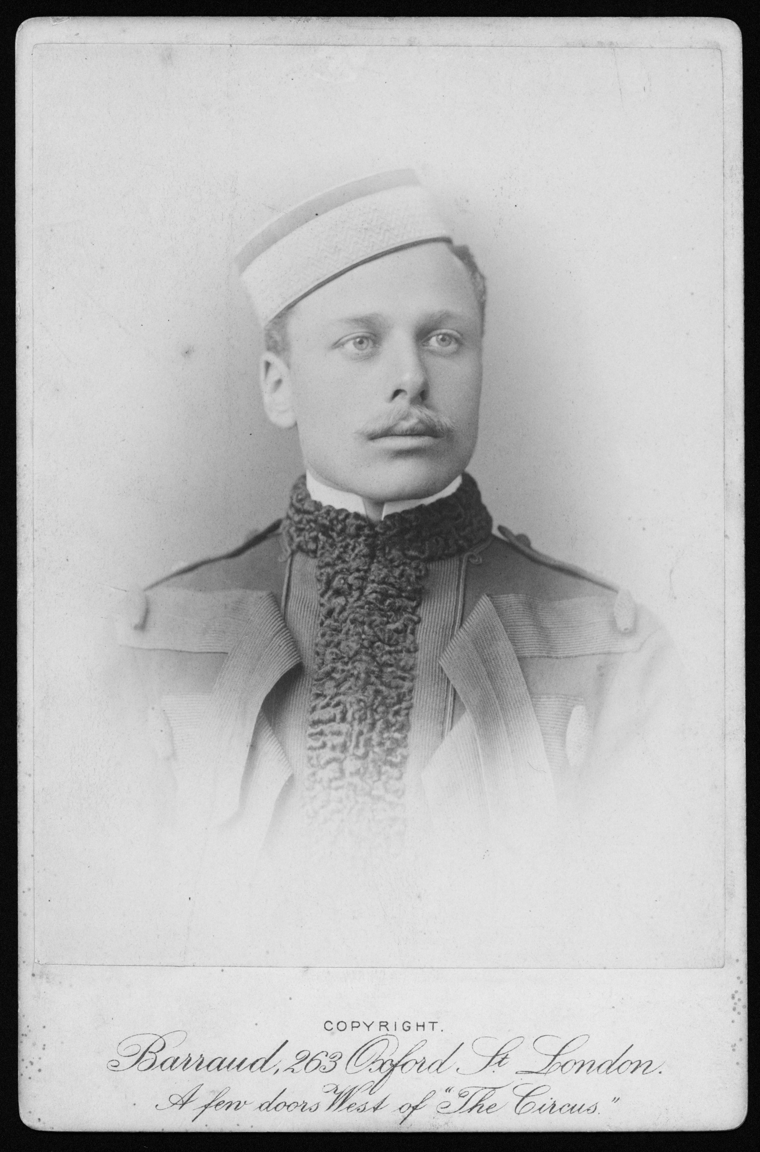 Haig as a Hussar, Britain, 1885. A studio portrait of Douglas Haig as a young man of 23, in uniform after he had joined the 7th (Queen's Own) Hussars in February 1885. After attending Oxford University, he had undertaken his basic military training at the Royal Military Academy at Sandhurst in 1884